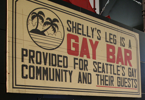 Sign from Shelly's Leg, Seattle's first openly gay bar in the "Changes" section of MOHAI's permanent exhibit, True Northwest.